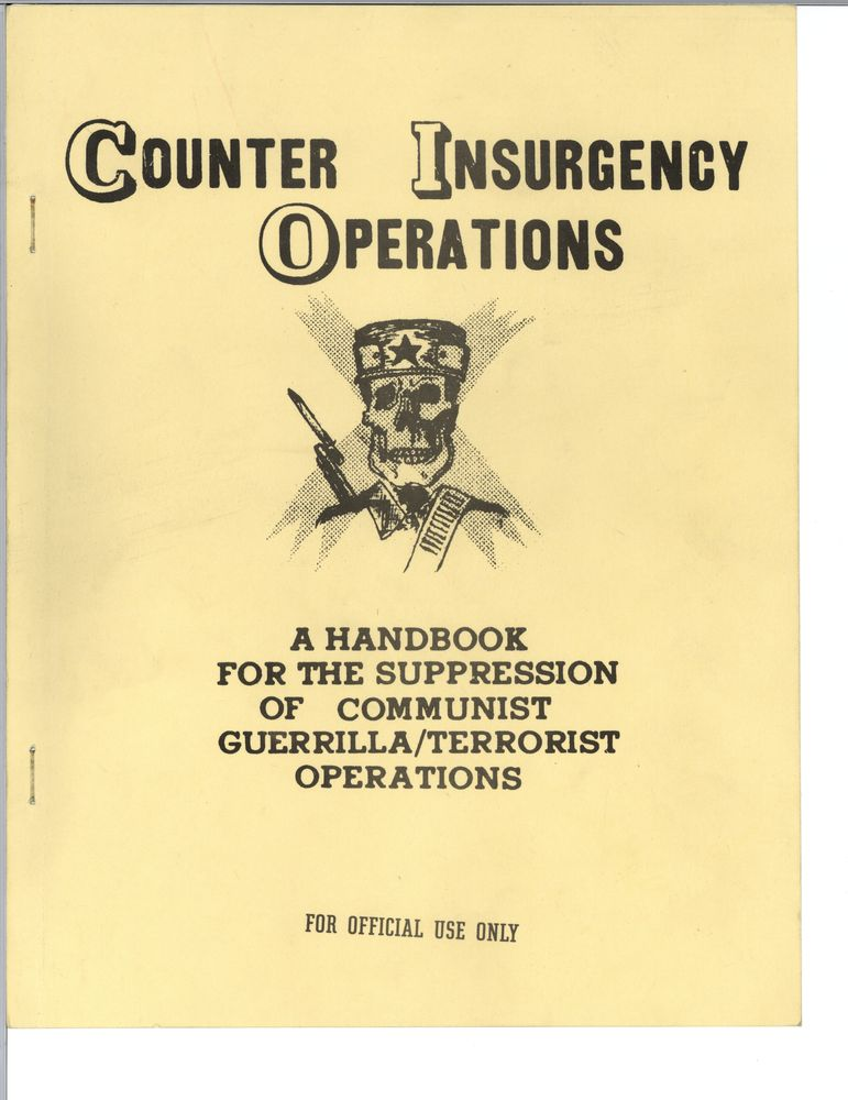 Cover of U.S. Army Counterinsurgency manual for Central and South America.